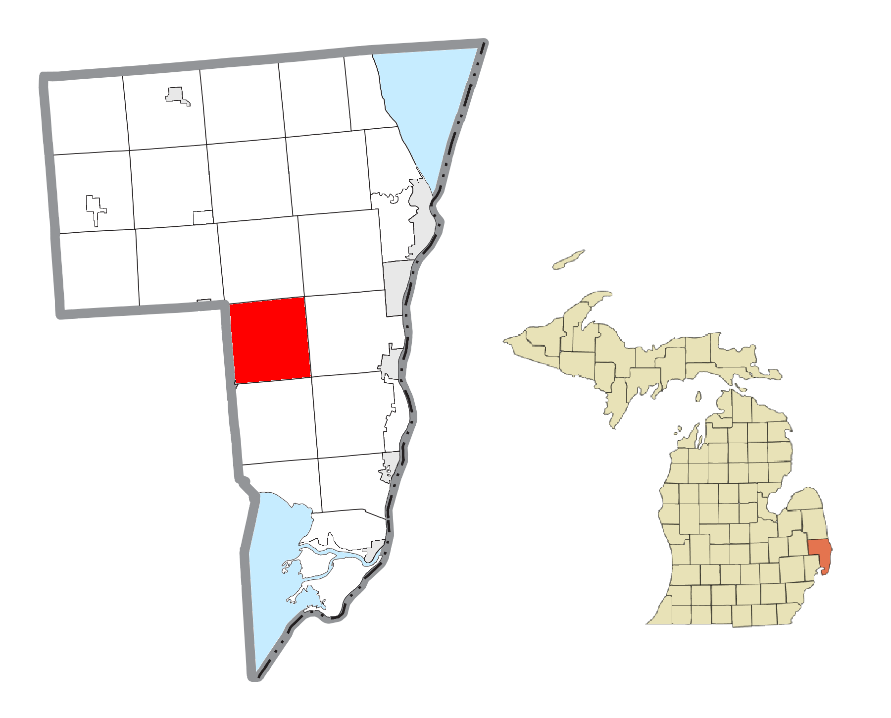 Columbus Township (St. Clair), MI